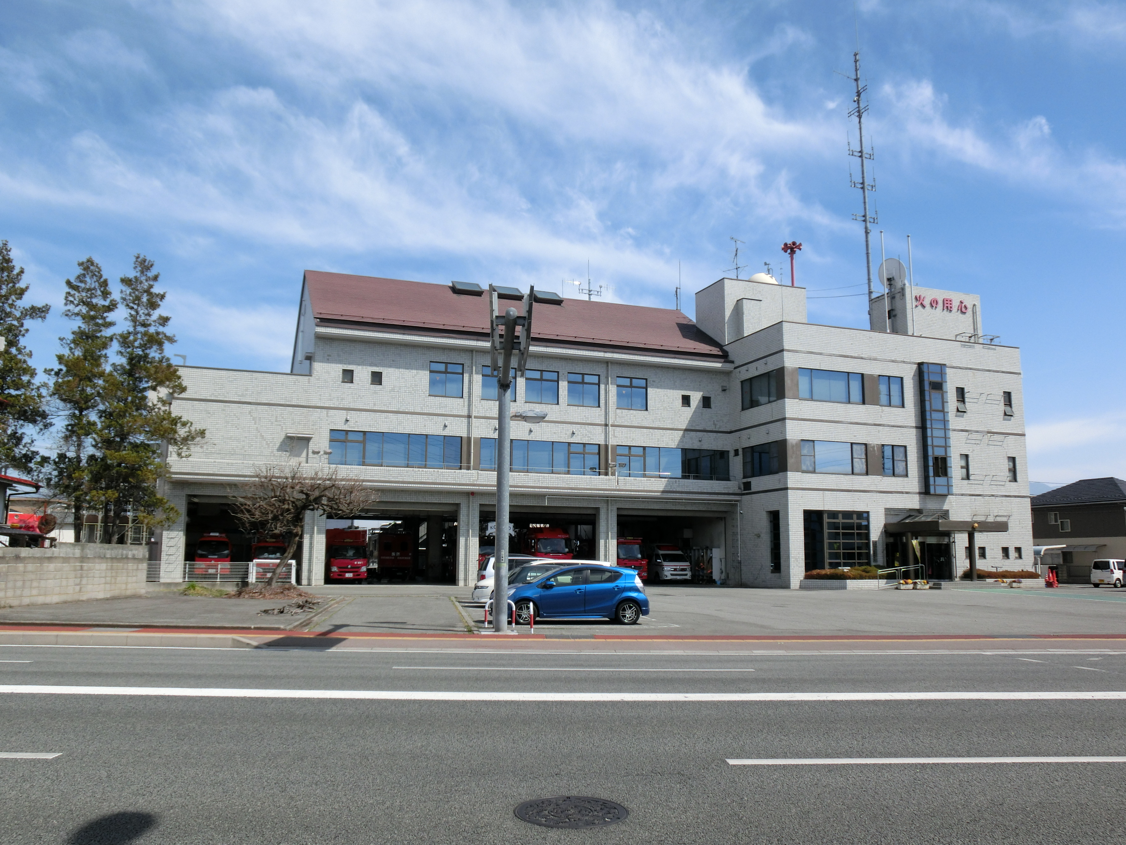 Kofu Fire Department